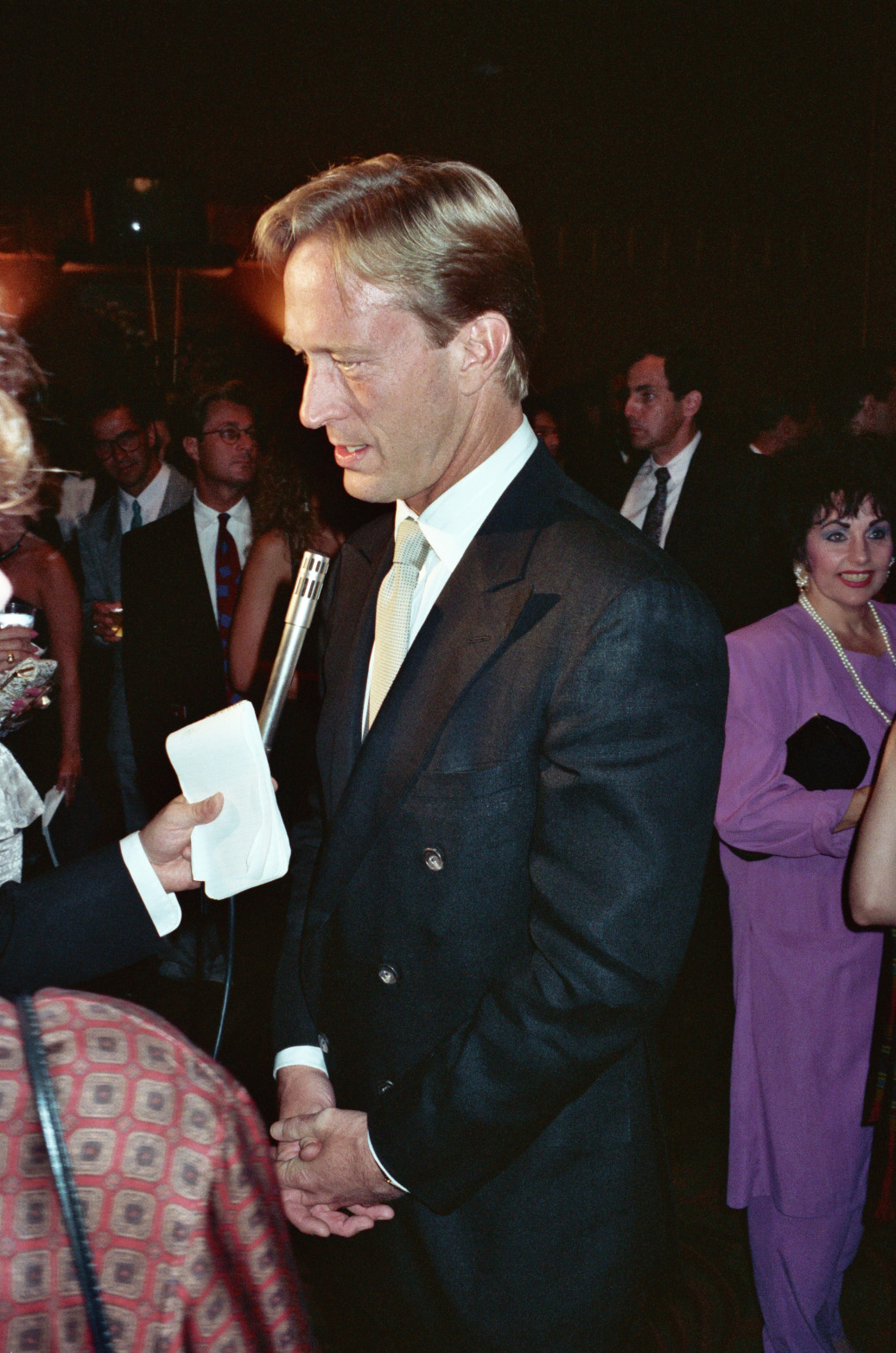 Ted Shakelford at the APLA benefit, 9/7/90 - Permission granted to copy, publish, broadcast or post but please credit "photo by Alan Light" if you can